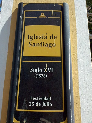 Iglesia de Santiago 3